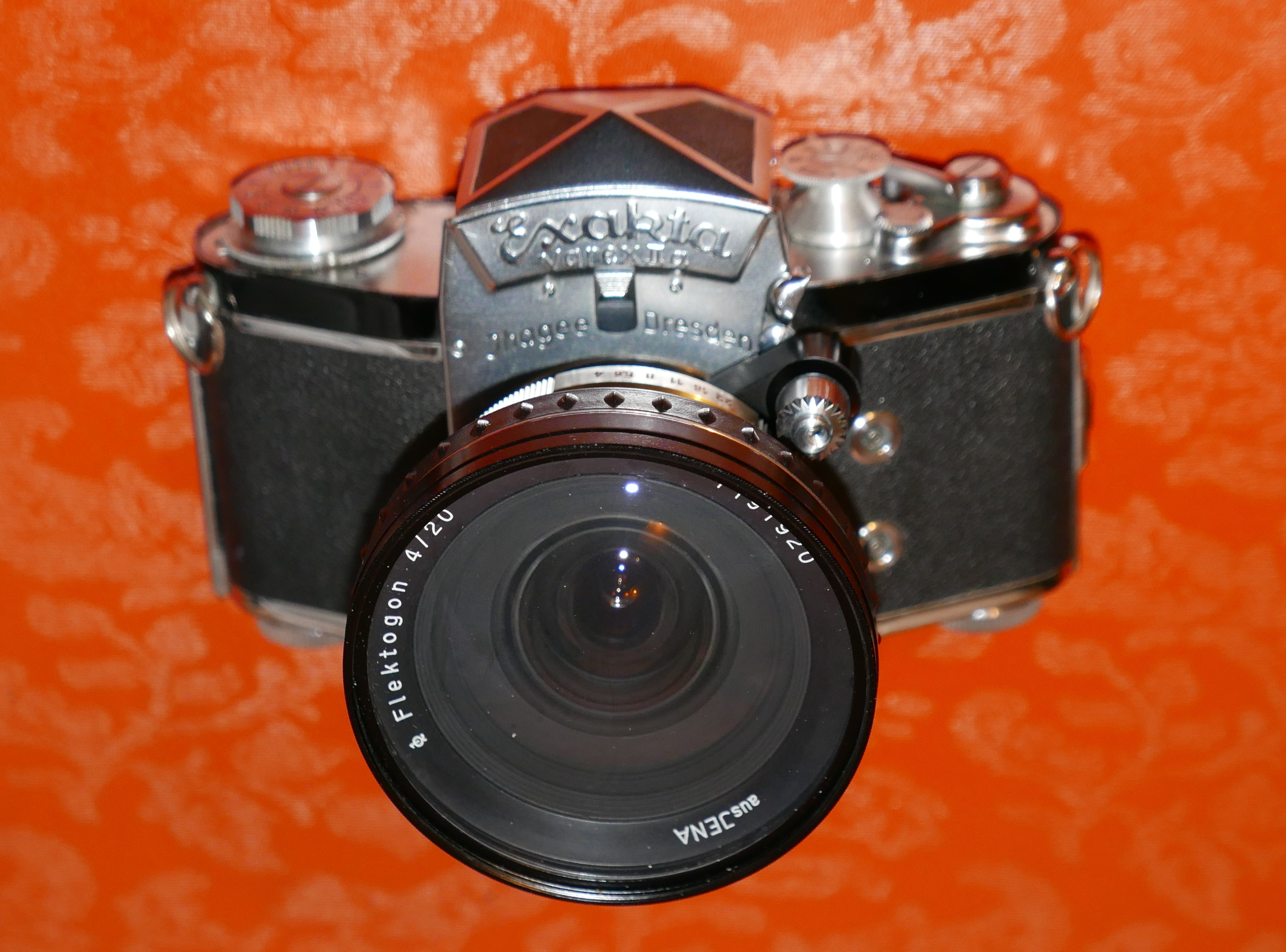 EXAKTA VAREX IIA